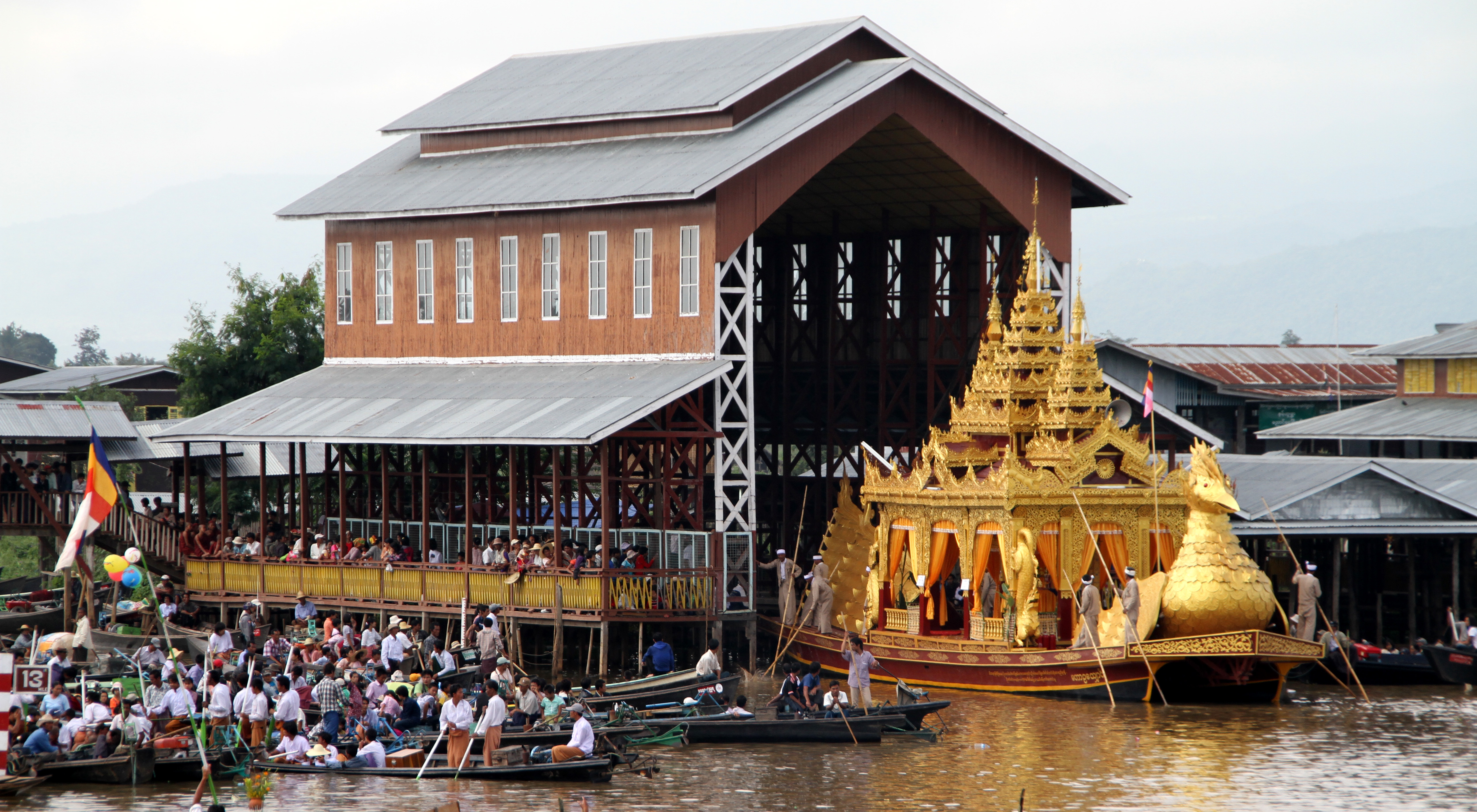 Phaung Daw U-Festival, final day, Inle lake, Myanmar.